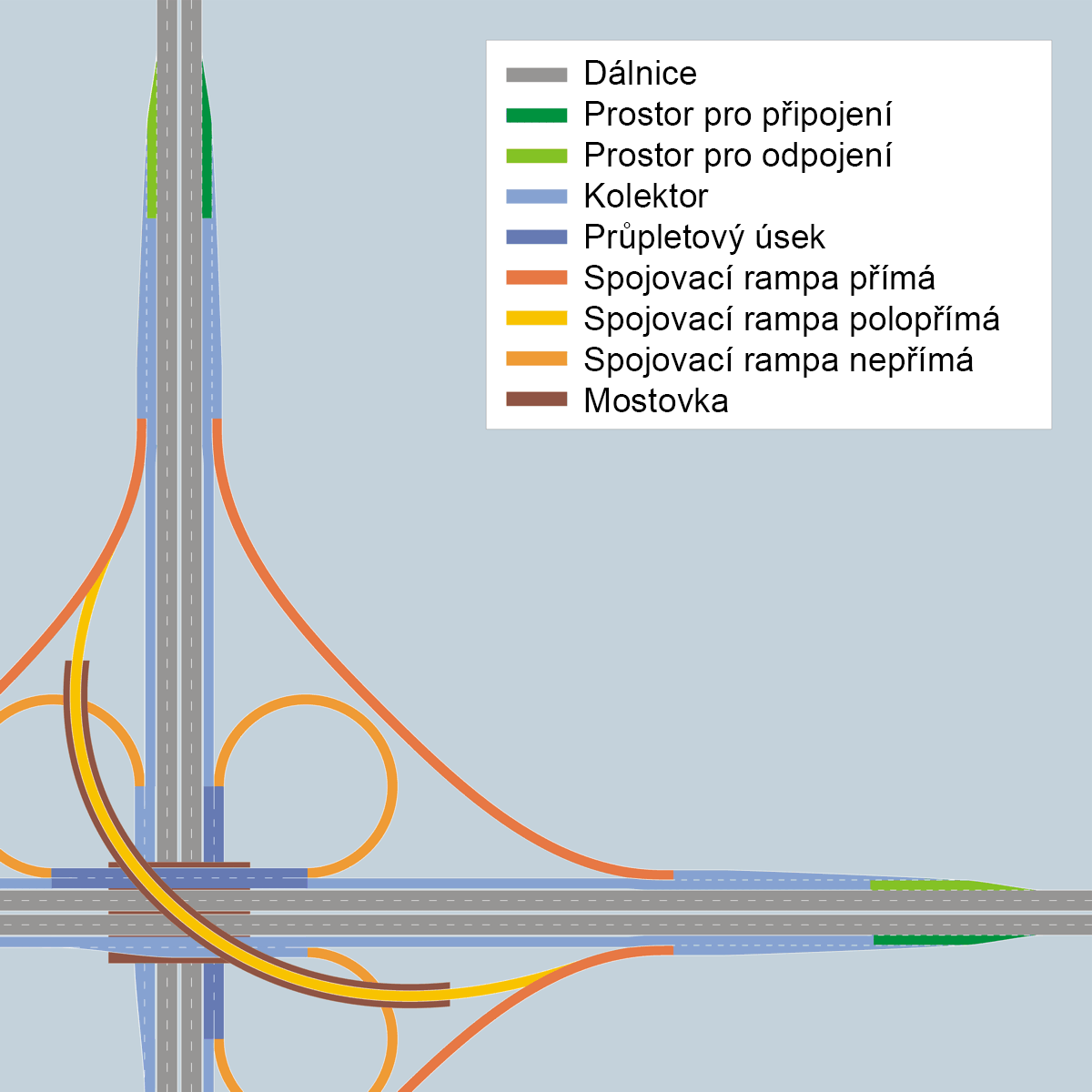 Components of an interchange